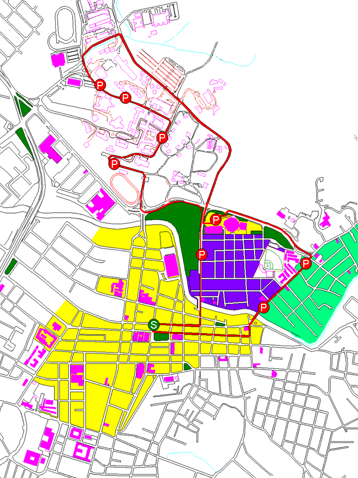 Mayagüez Integrated Transportation (TIM) - Route 1 with Stops